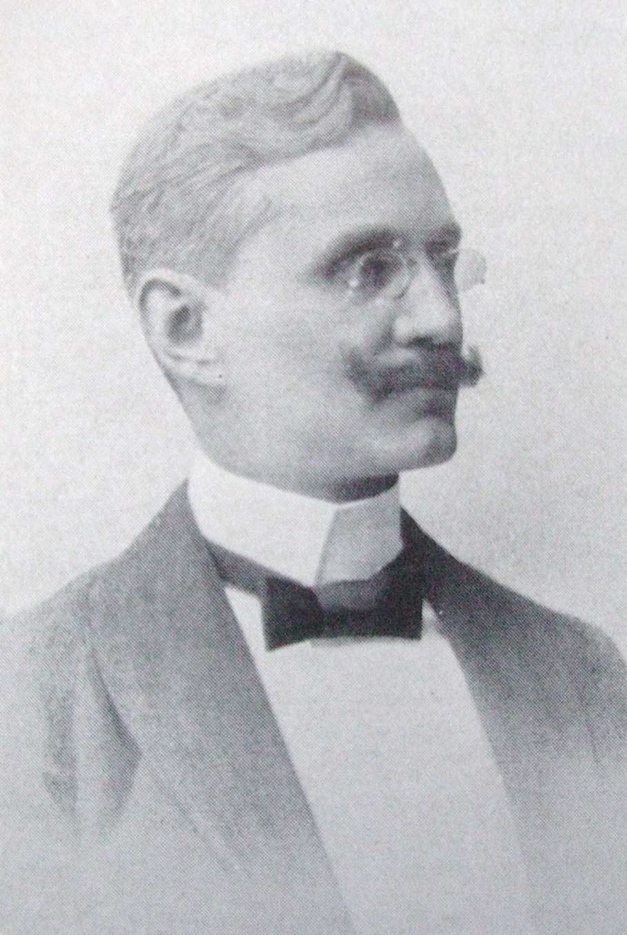 Picture of E. Theodor Marks von Würtemberg, Swedish politician